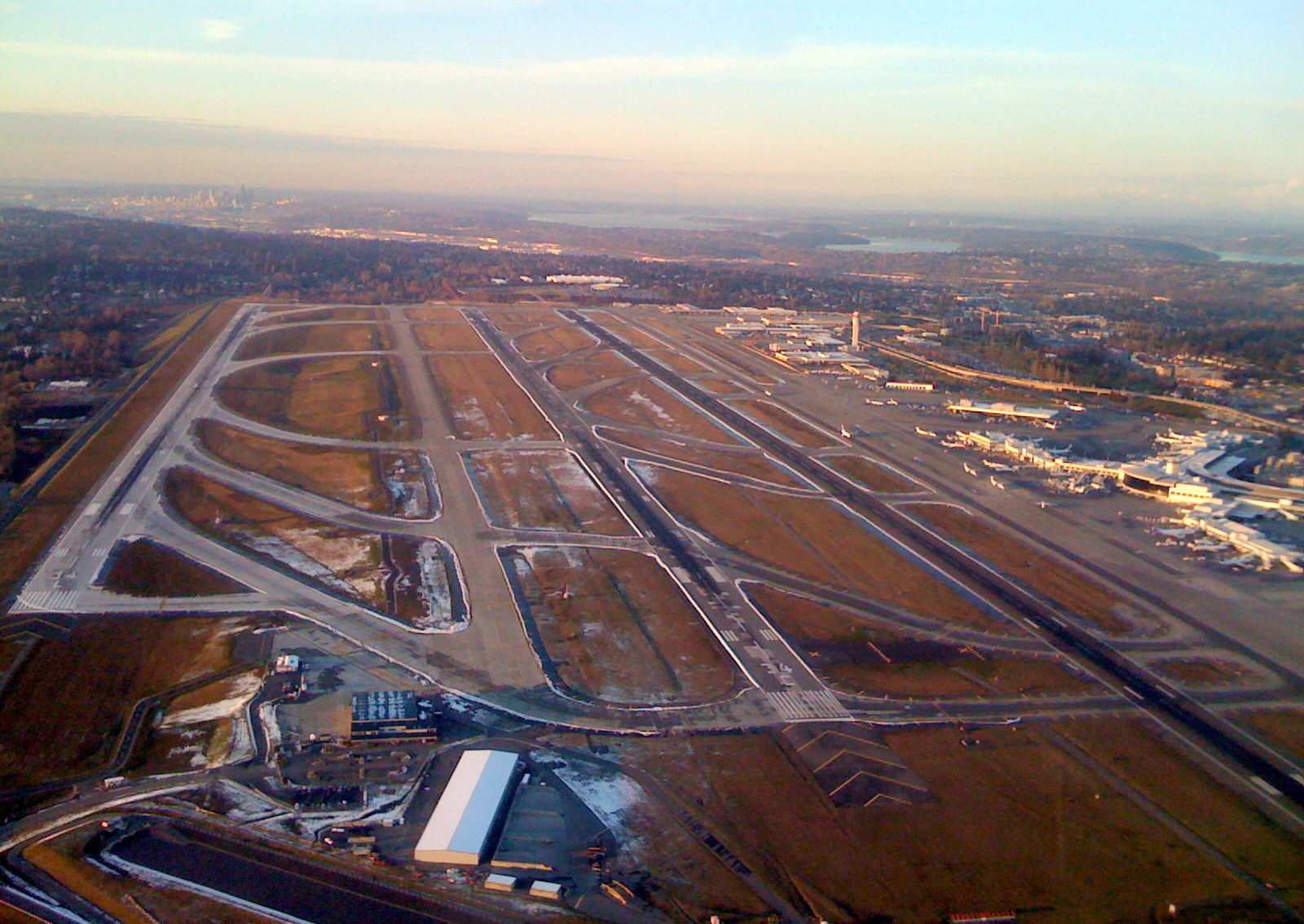 Seattle-Tacoma International Airport (Sea-Tac, KSEA, SEA) viewed from 1,500', looking north.